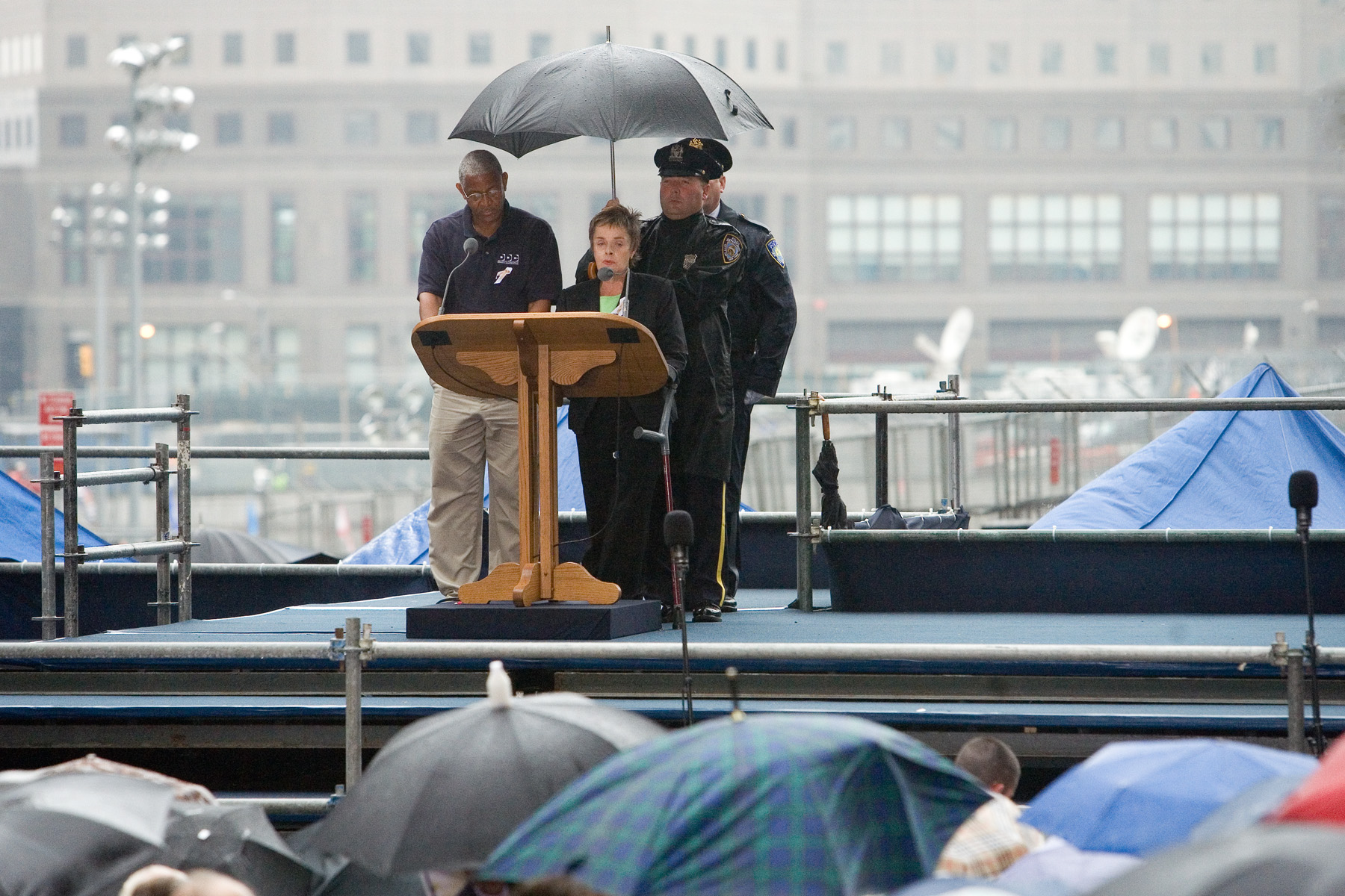 New York, NY, September 11, 2007 -- Ground Zero, Marianne C. Jackson, FEMA Region II, Federal Coordinating Officer, memorializes the 9-11 victims during the Ground Zero Ceremony.